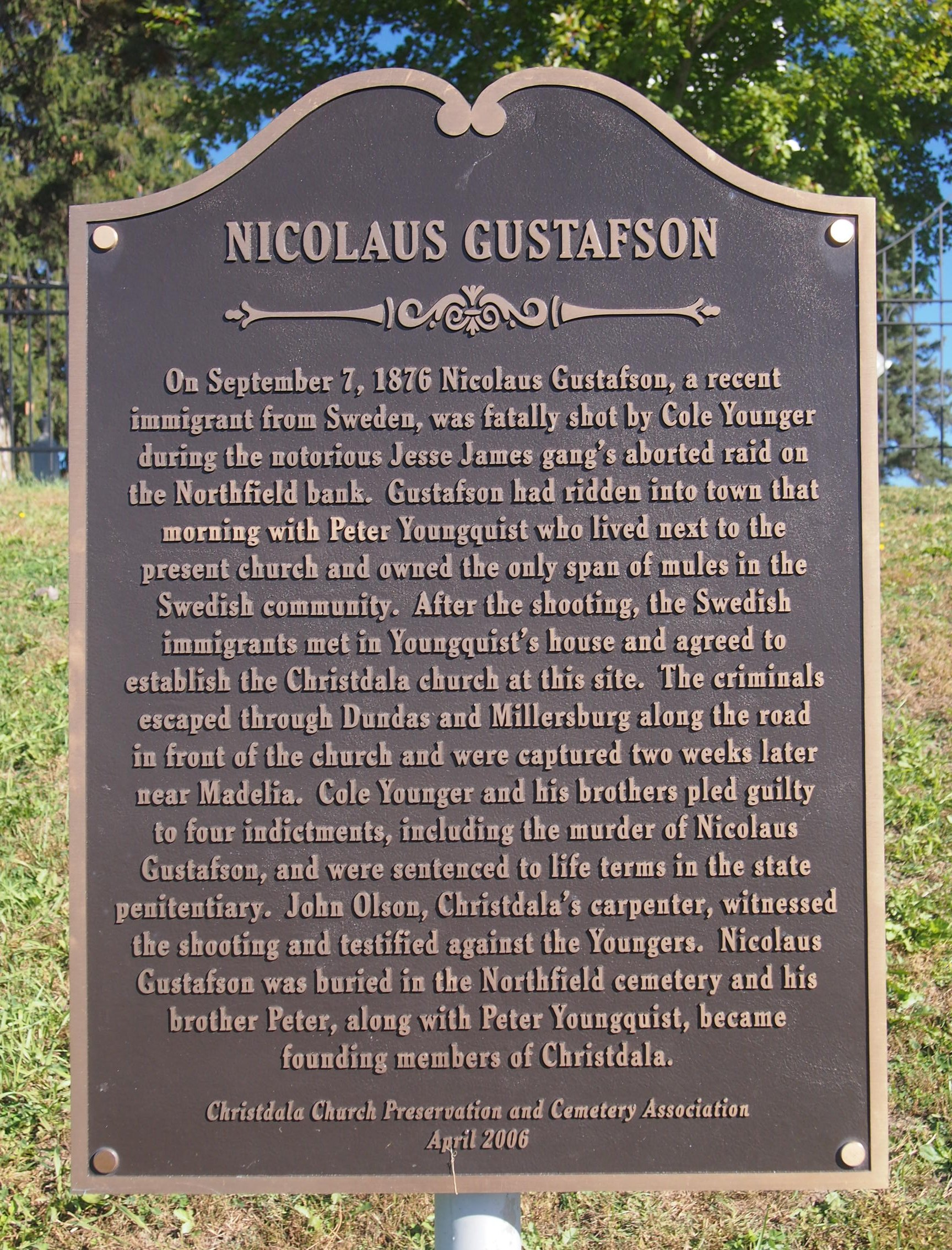 Nicolaus Gustafson historical marker, Christdala Evangelical Swedish Lutheran Church, 4695 Millersburg Blvd, Forest Township, Minnesota, USA. Viewed from the south.